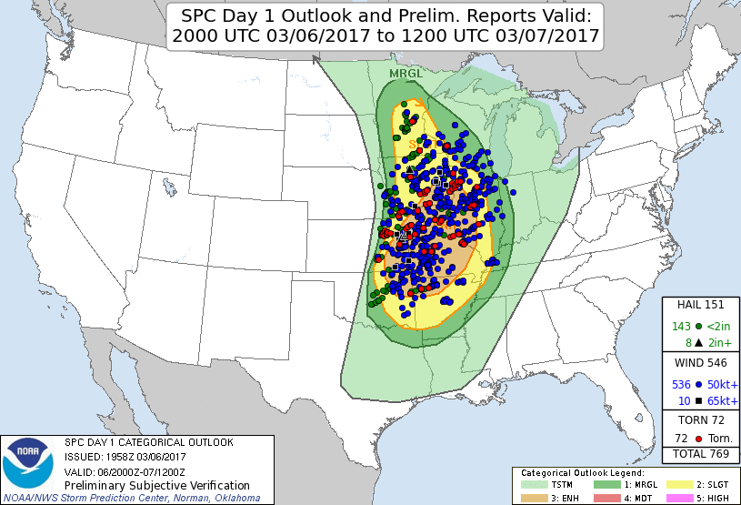 Severe weather storm reports overlaid atop the Storm Prediction Center's 20z convective outlook on March 6, 2017.